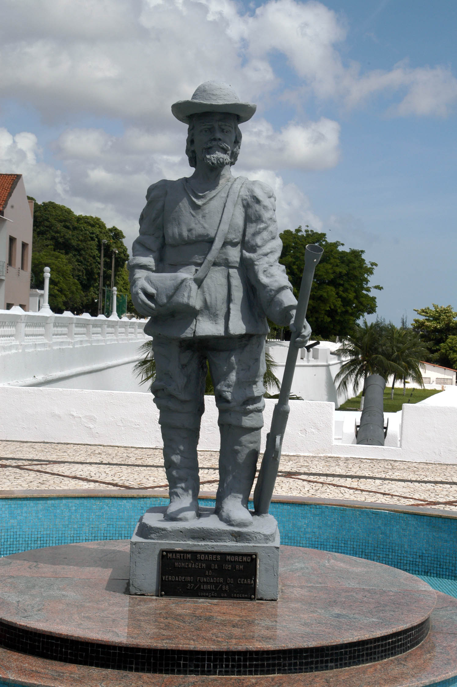 MARTIM SOARES MORENO – FOUNDER OF CEARA AND FORTALEZA CIRCA 1612. THIS STATUE STANDS WITHIN THE WALLS OF THE FORT